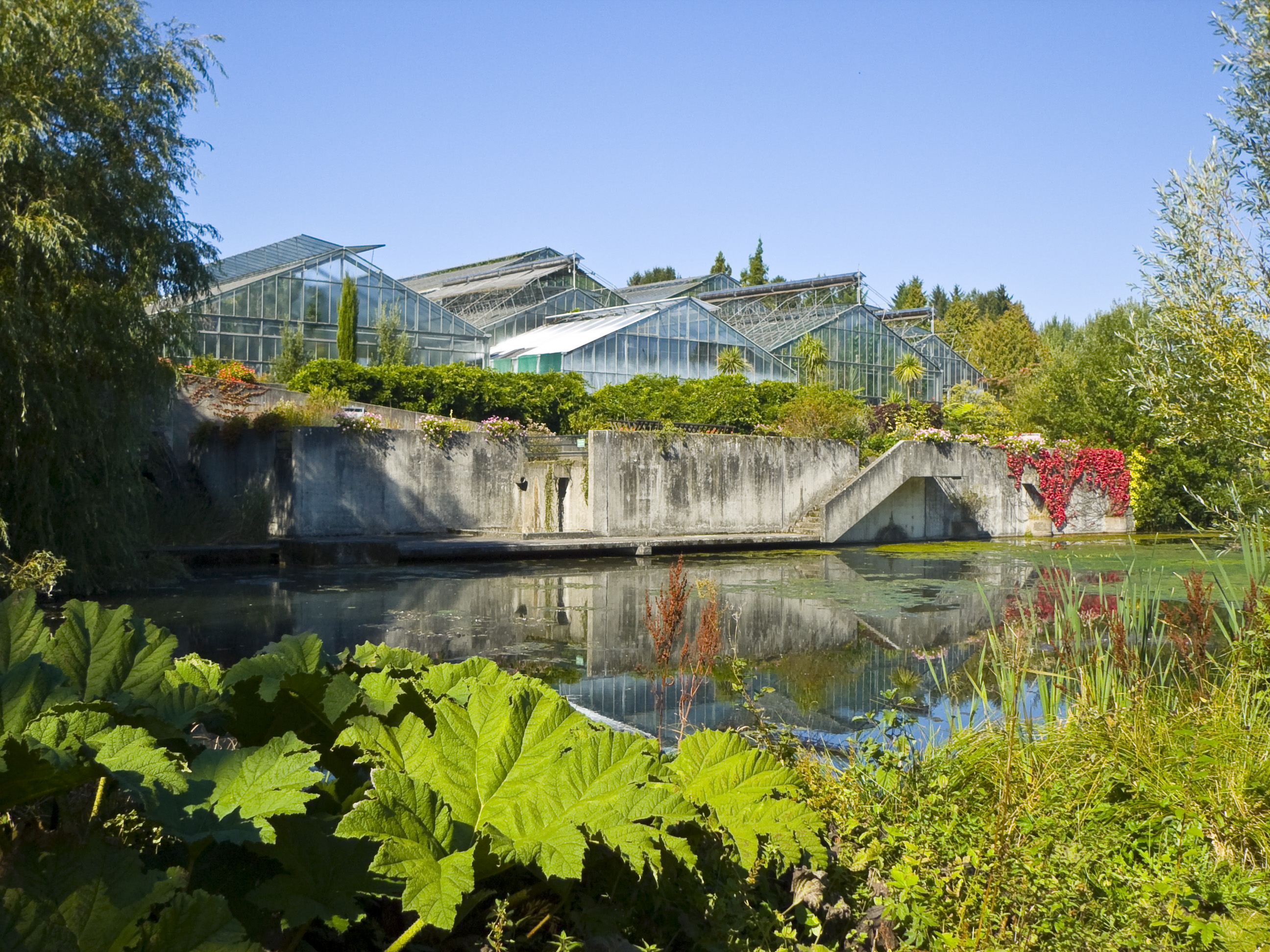 New Botanical Garden Marburg on the Lahnhills, Greenhouses and Pond, Hesse, Germany